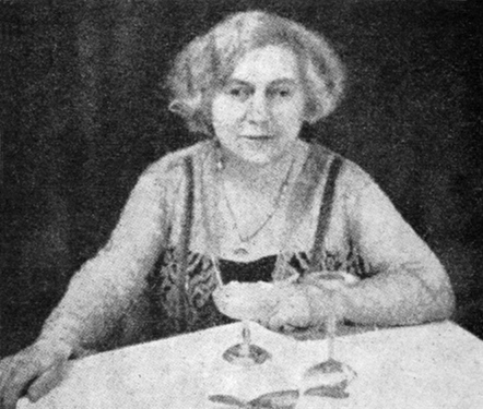 Karin Michaelis (1872-1950) was a Danish journalist and writer.